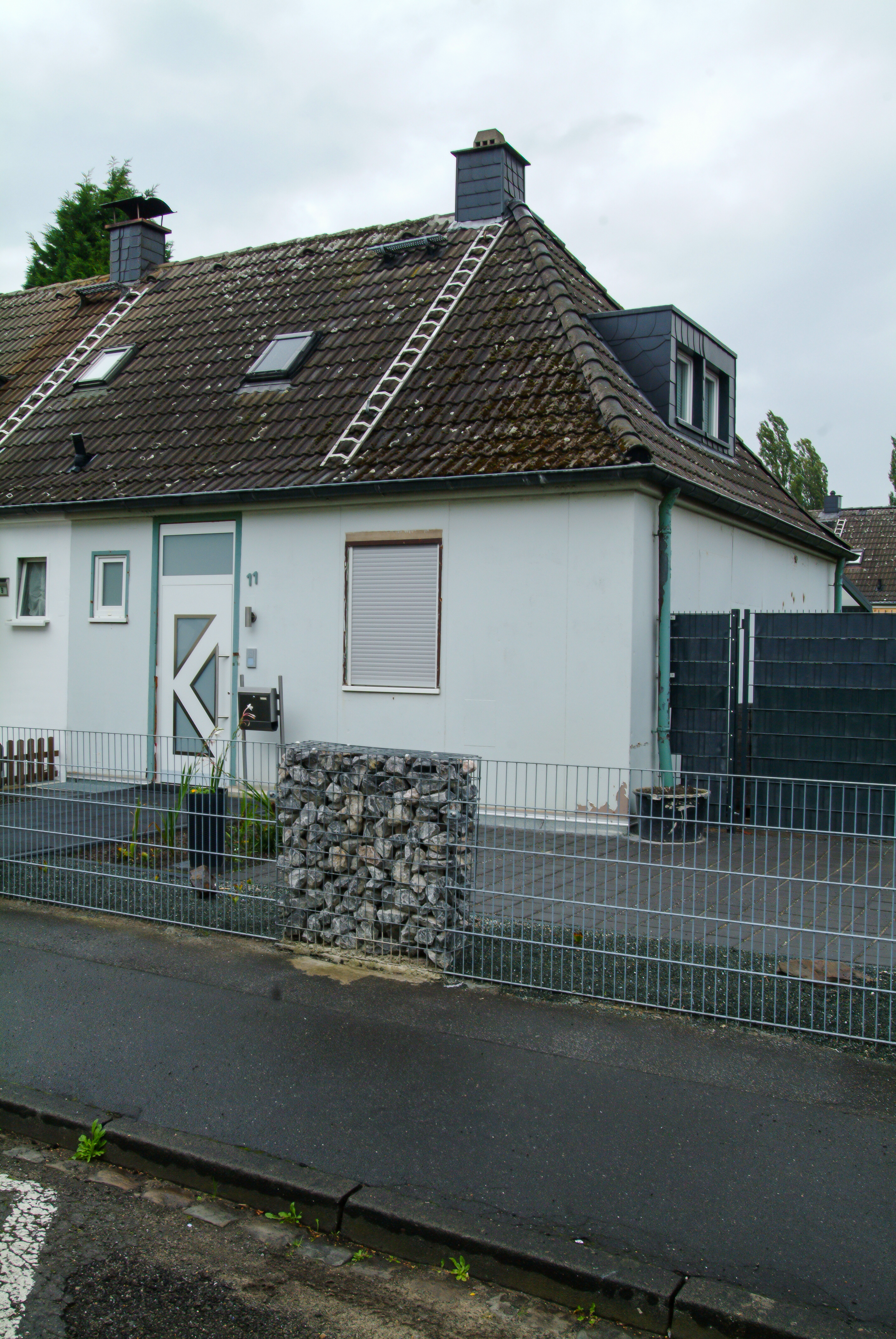 Castrop-Rauxel: An der Heide 11